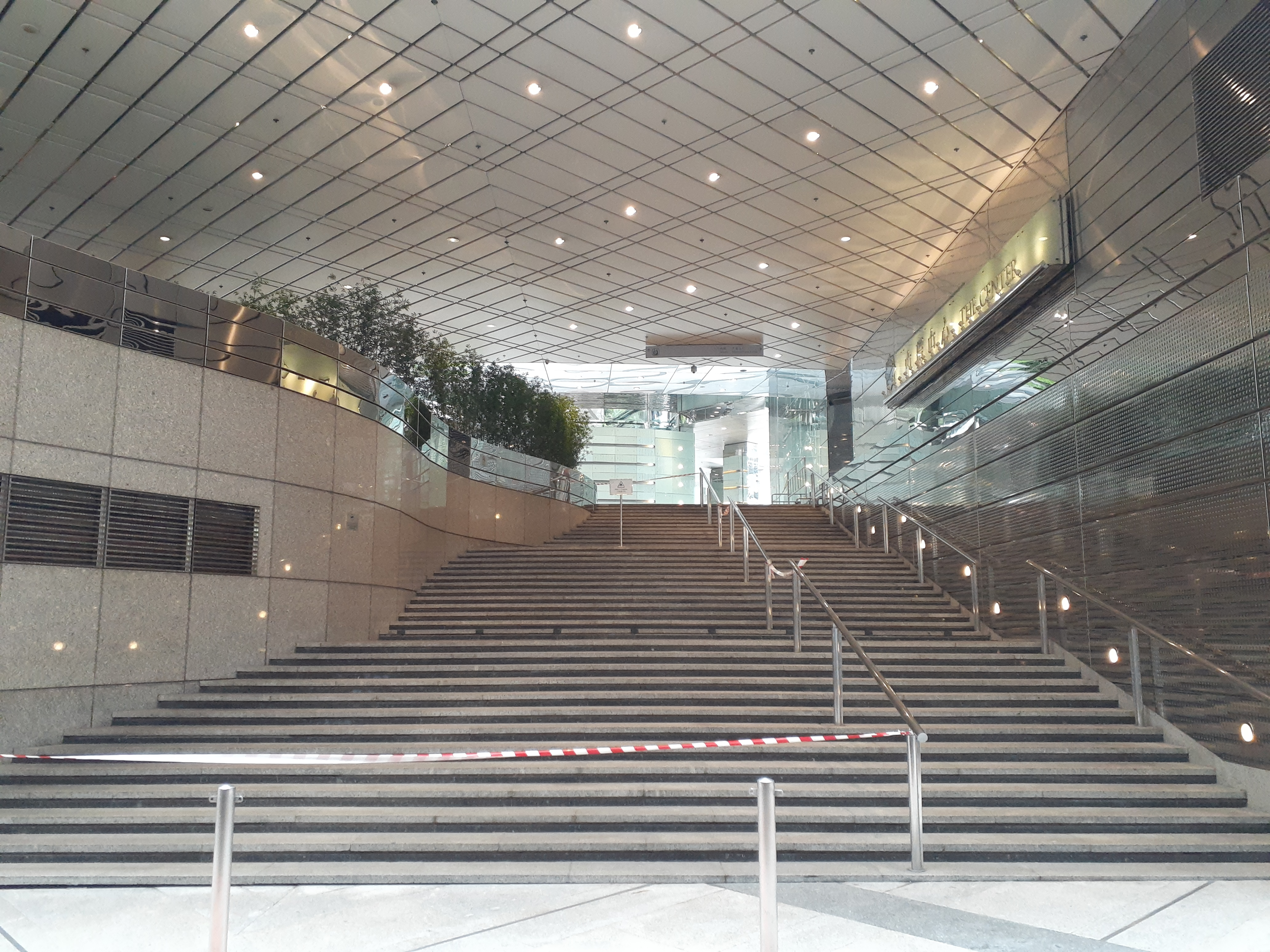 HK 中環 Central 機利文新街 Gilman's Bazaar shop morning in June 2020